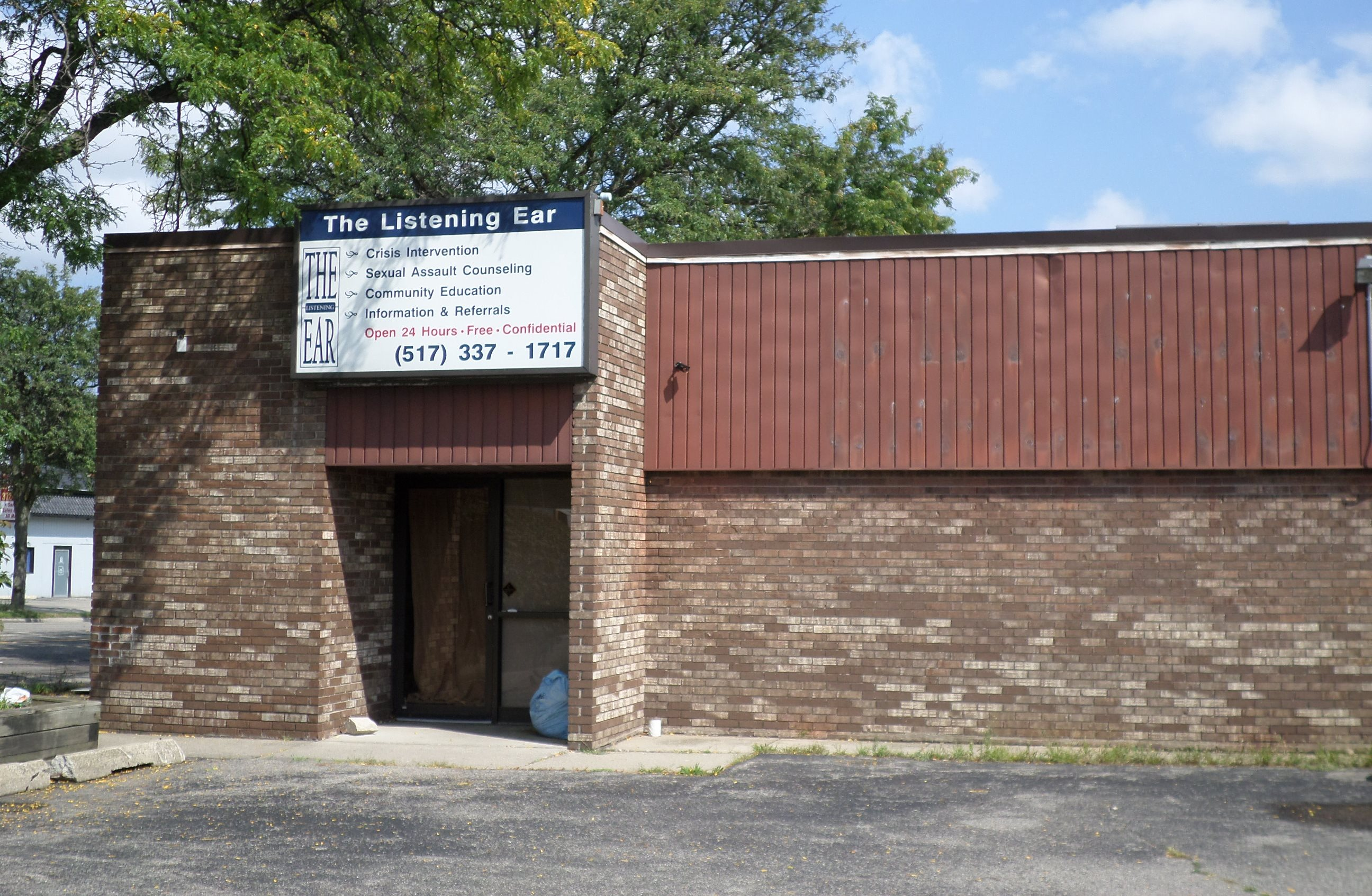 The Listening Ear, located at 2504 E Michigan Ave, Lansing, MI